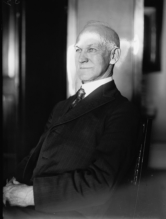 Miner G. Norton, congressman from Cleveland, Ohio from 1921 photo.